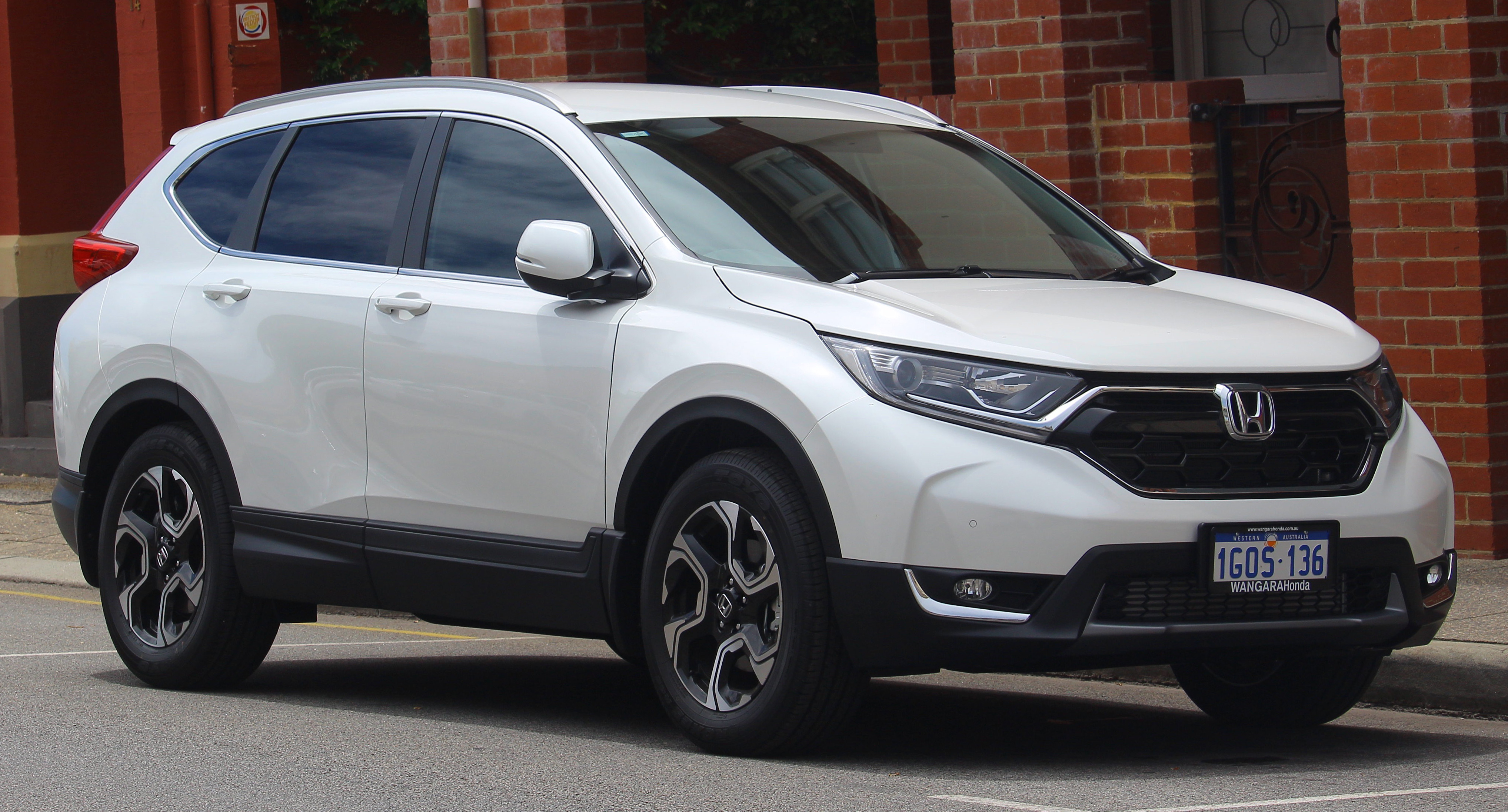 2018 Honda CR-V (RW MY18) +Sport 2WD wagon. Photographed in Fremantle, Western Australia, Australia.